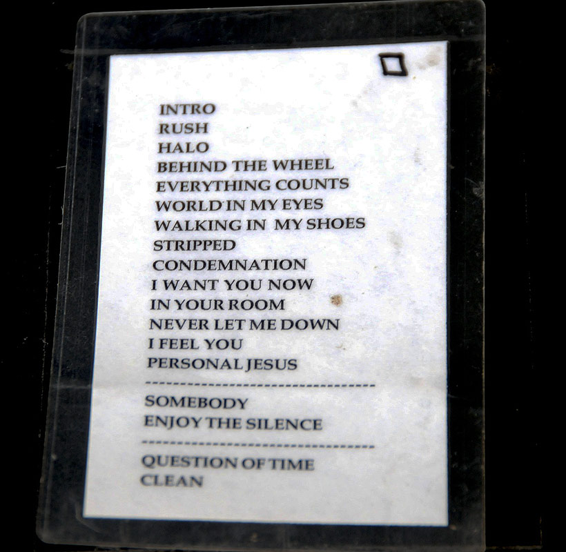 Laminated Depeche Mode setlist from a concert held on 2/15/1994 in Johannesburg, South Africa - (image credit: Alan Wilder)